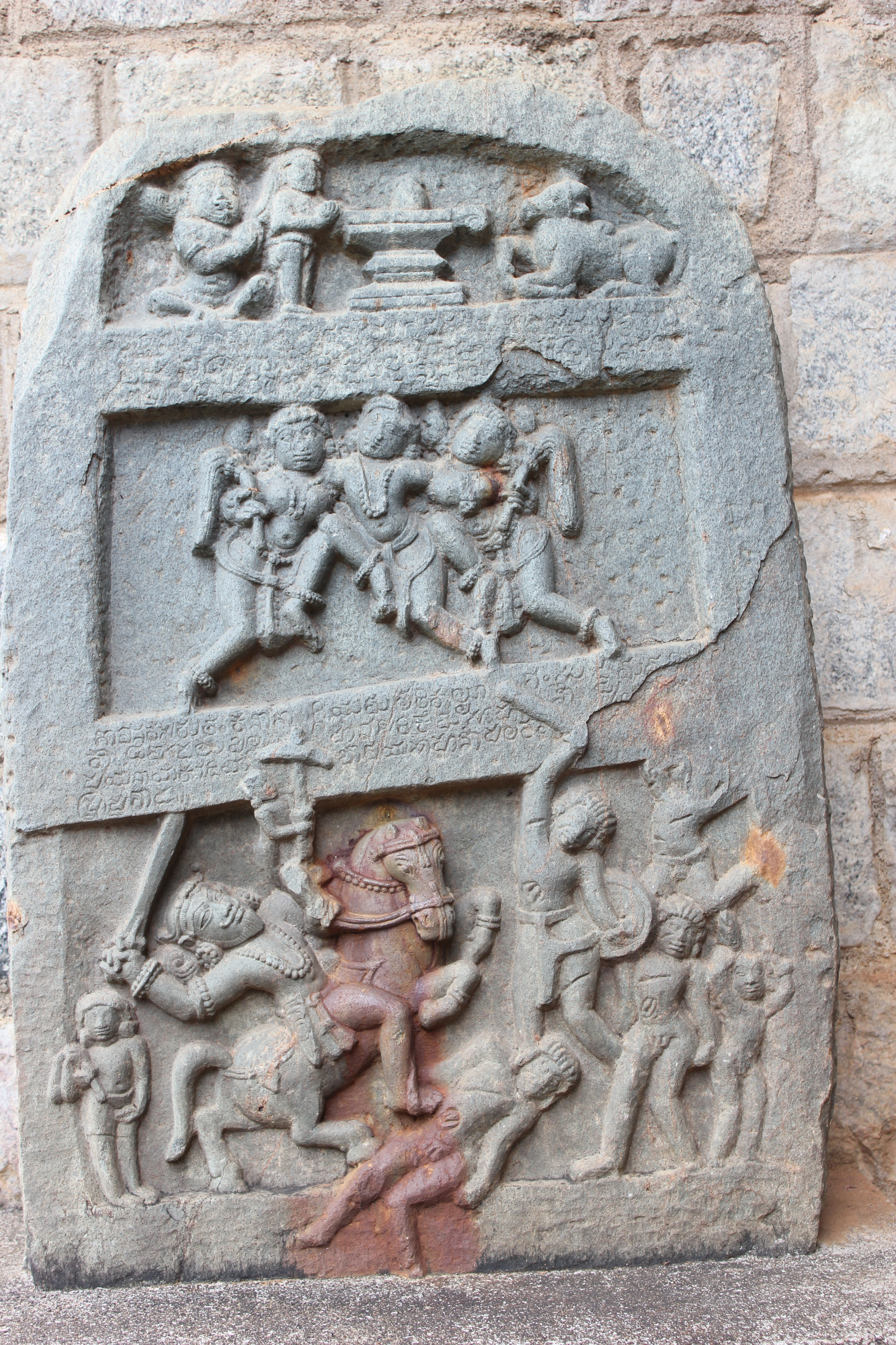 This photograph of a Herostone (virgal) with old Kannada inscription (1115 A.D.) from the rule of Kalyani (Western) Chalukya King Vikarmaditya VI was taken by me at the Kedareshvara temple (also spelt Kedaresvara or Kedareshwara) in Balligavi (also called variously as Belgami, Belligave, Balligamve and Ballipura in ancient inscriptions) in the Shimoga district of Karnataka state, India. Source: Mysore inscriptions, pg.185, Benjamin Lewis Rice, Director of Public Instruction, Mysore and Coorg, Printed at Mysore Government Press, Bangalore, 1879